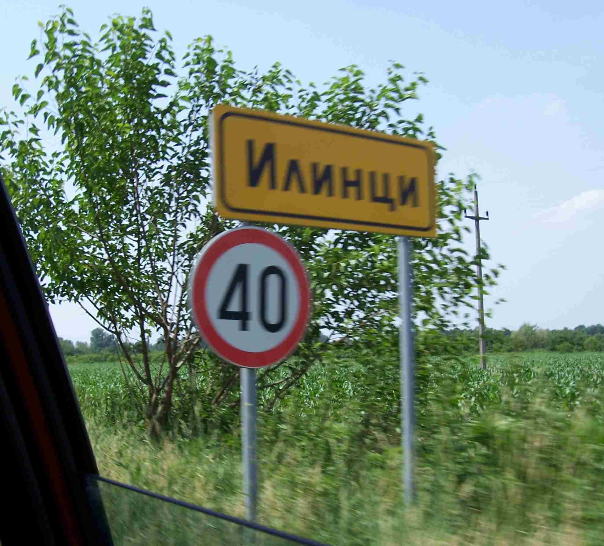 Self made